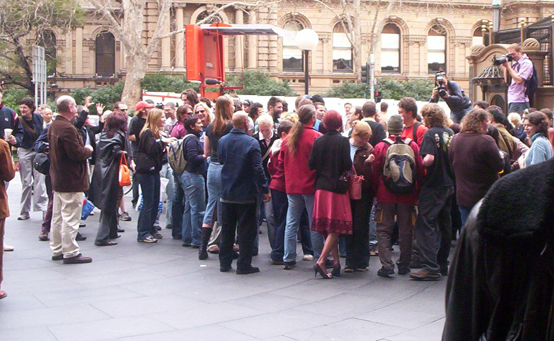 Sydmob - first flashmob in Sydney, 23 August 2003, outside Queen Victoria Building